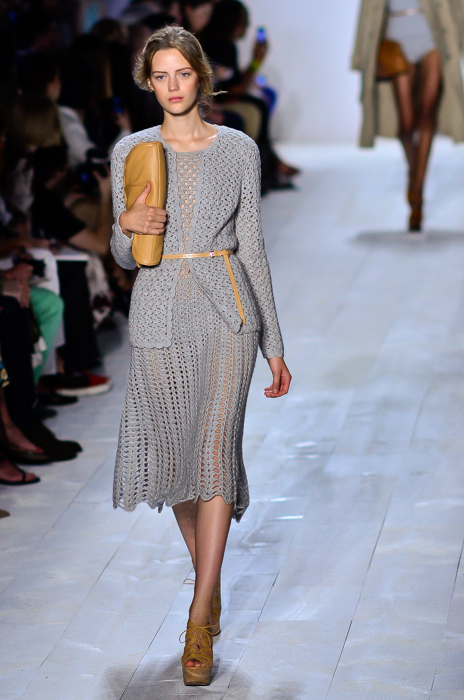 A model walks the runway at the Michael Kors Spring/Summer 2014 show at New York Fashion Week, September 2013.